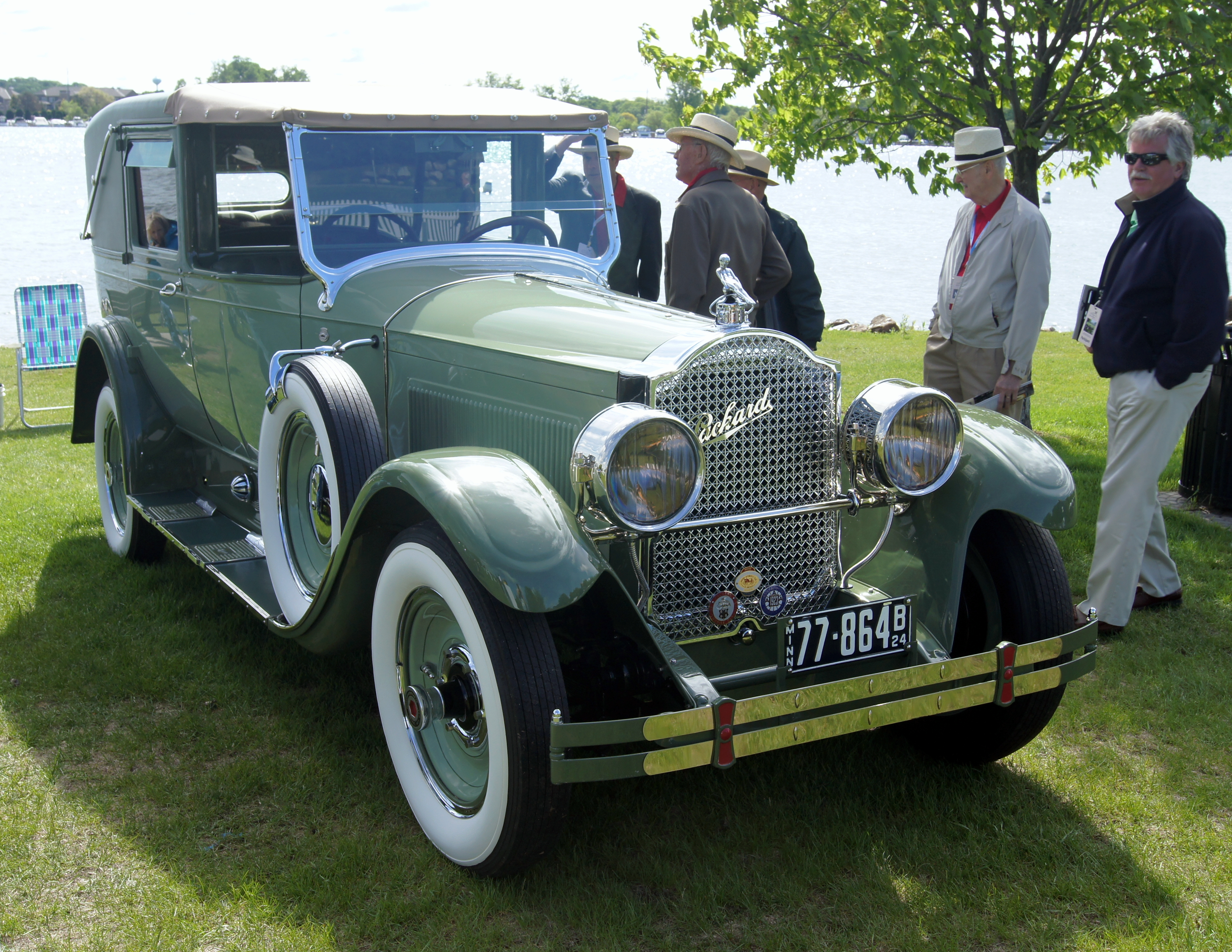 1924 Packard Town Car by Fleetwood 10,000 Lakes Concours d'Elegance 2013 Original owner was the president of the Chicago and Northwestern Railroad